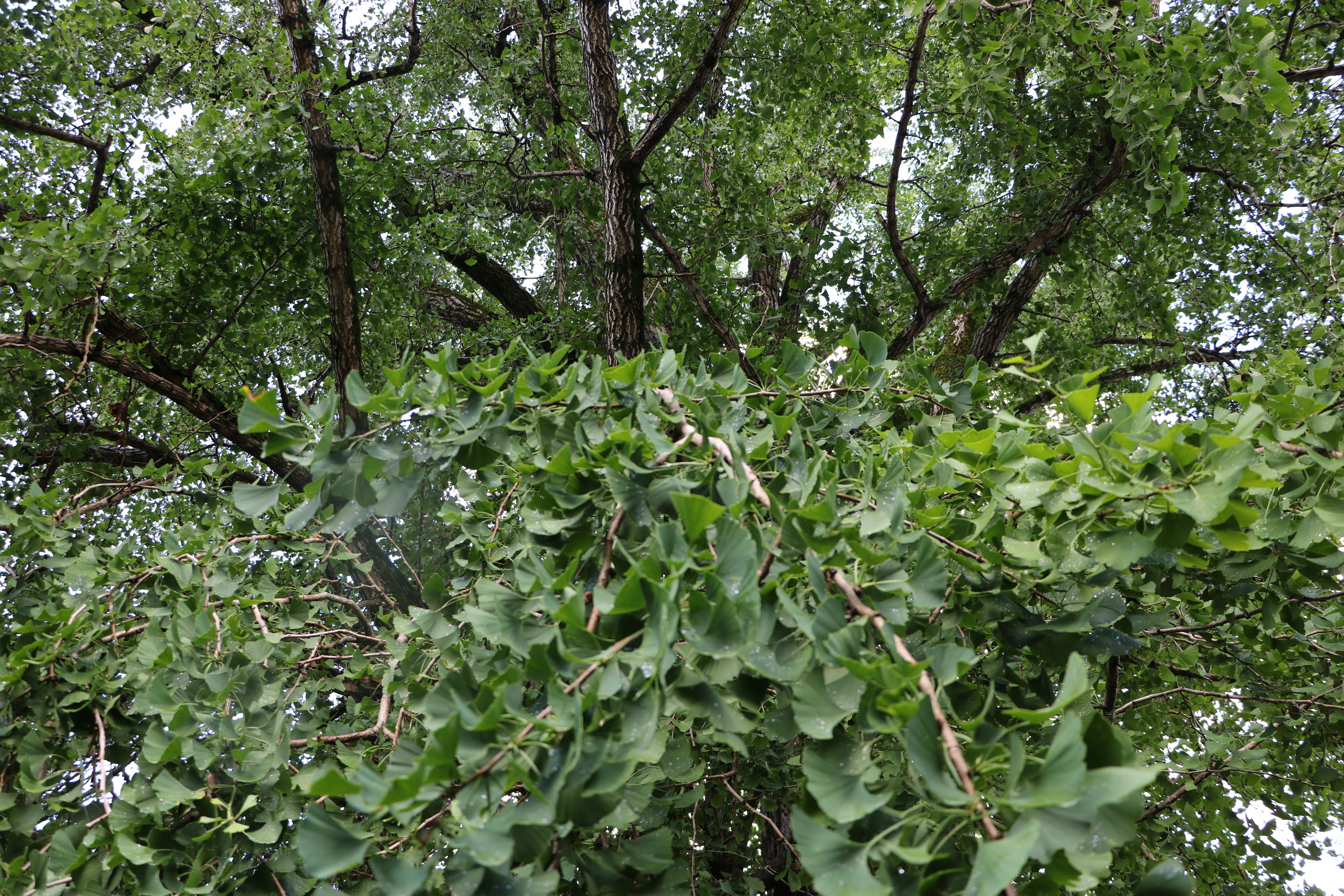 Yagisawa no Ohatsuki Icho. Ginkgo biloba natural monuments in Japan.